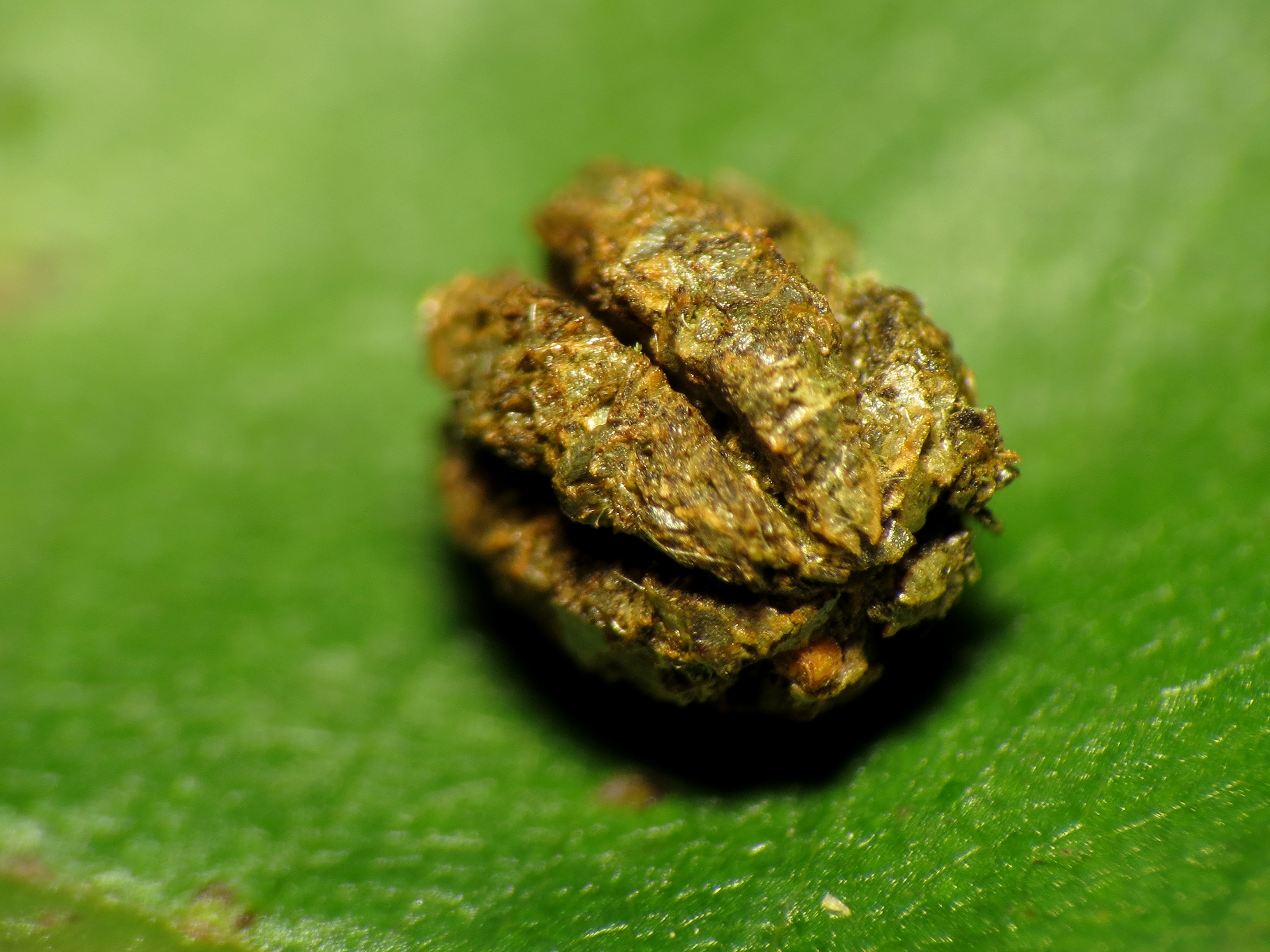 Dry caterpillar frass. Rock Creek Park, Washington, DC, USA.